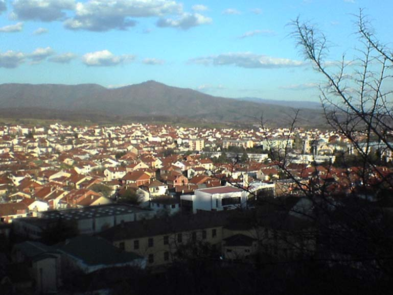 Overview of the town of Radoviš, Republic of Macedonia.